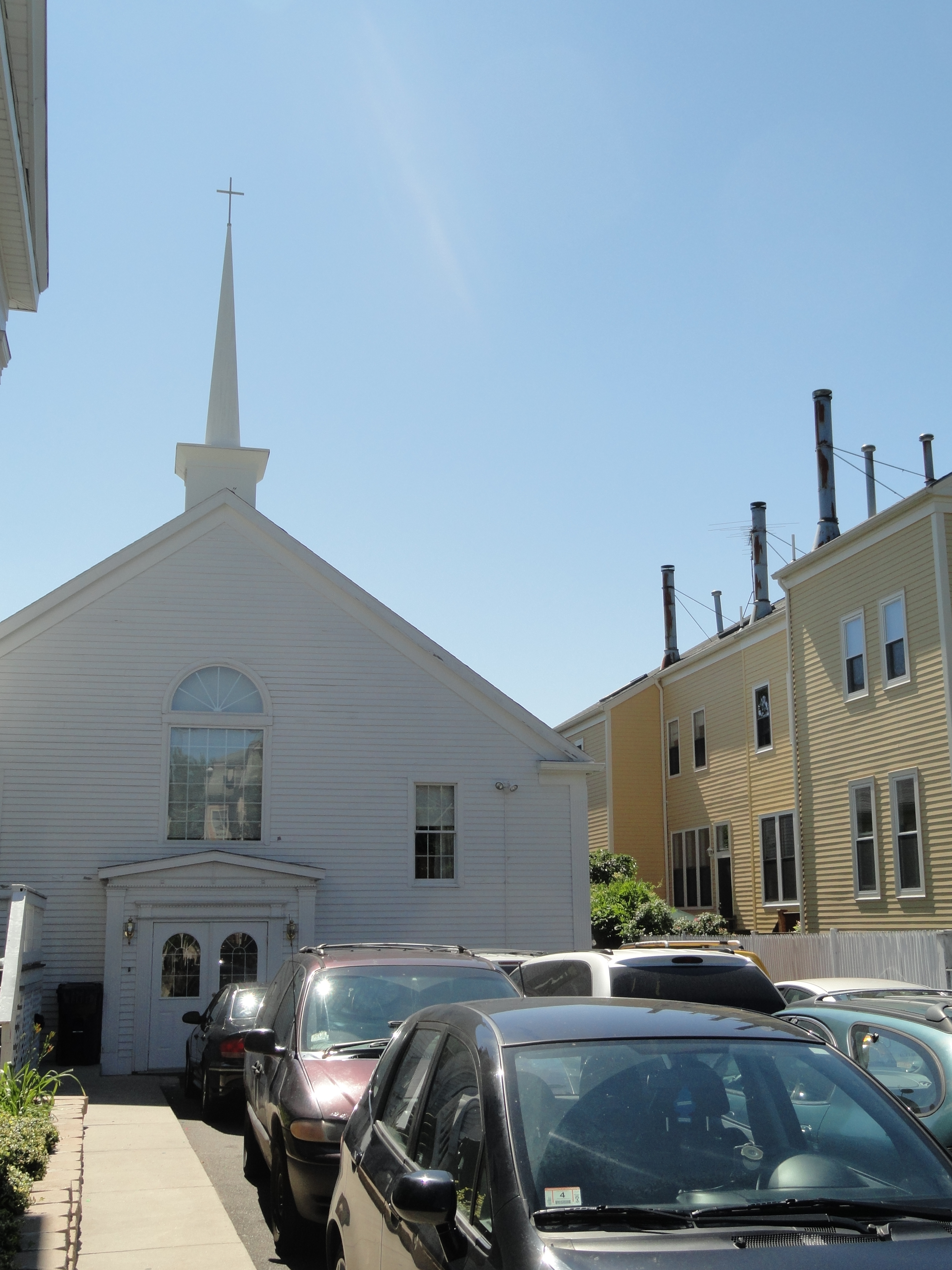 Portuguese Baptist Church, 114 Inman Street, Cambridge, Massachusetts, USA.